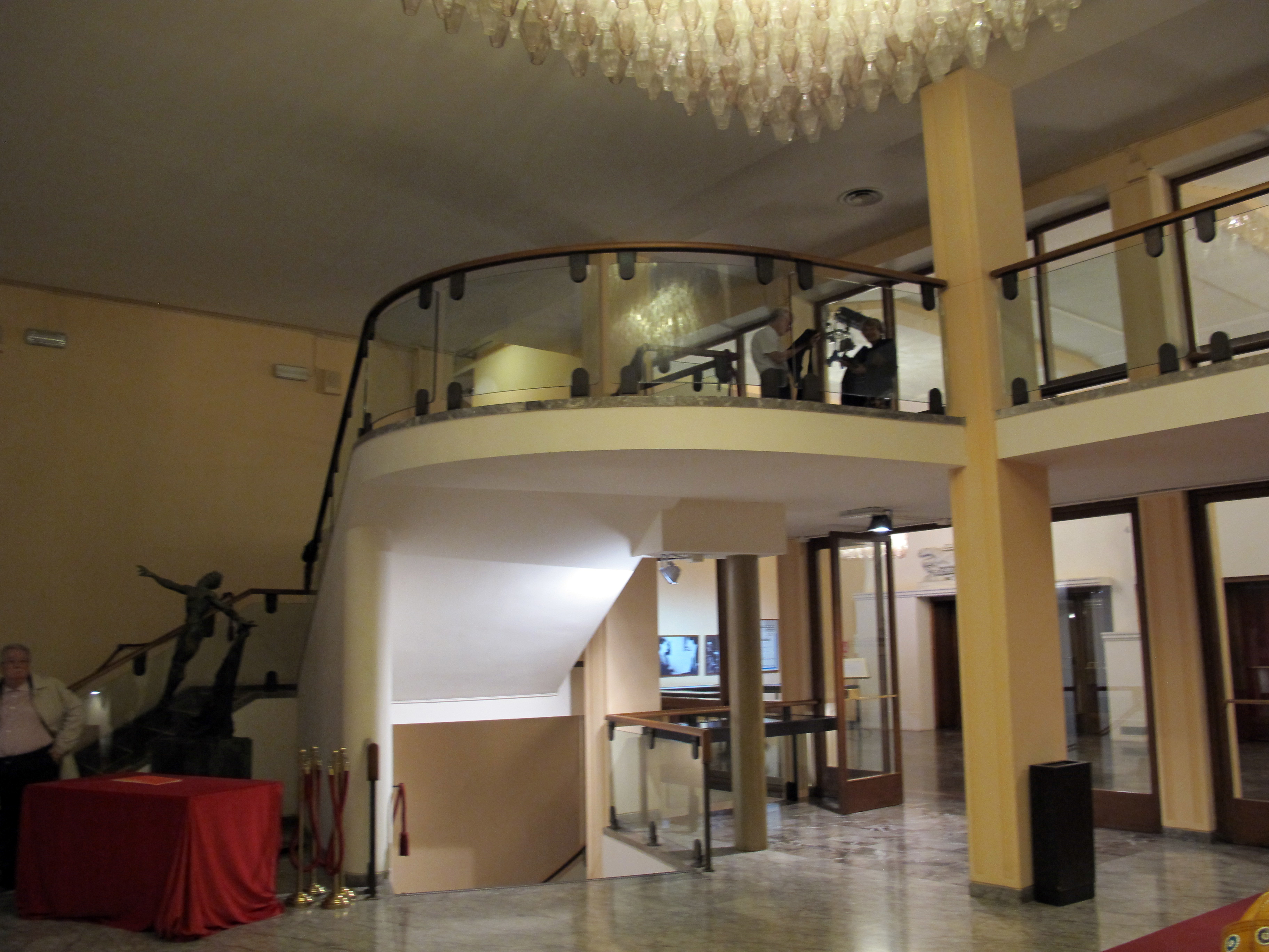 Teatro Comunale (Florence) - Interior